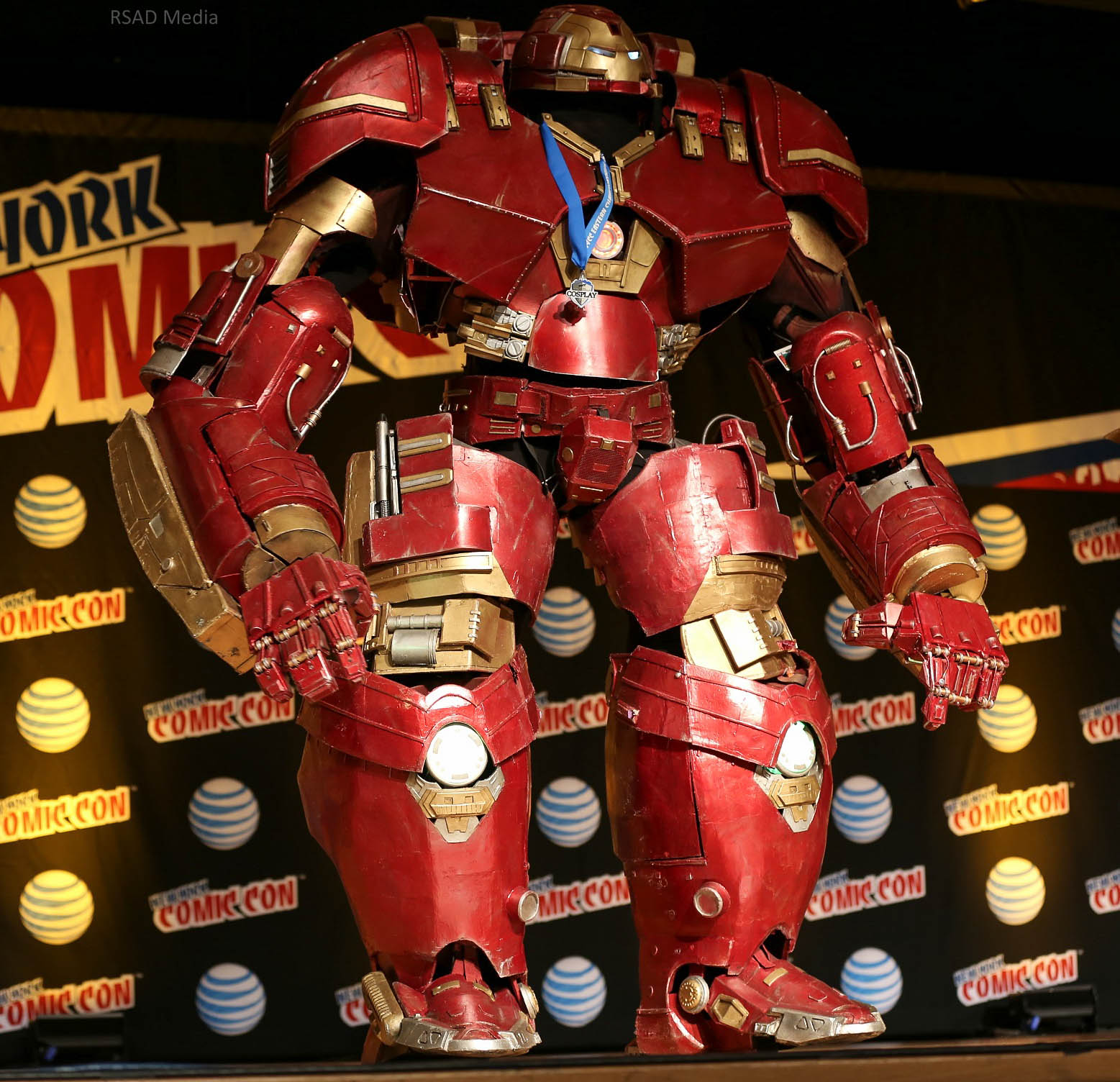 New York Comic Con 2015 - Hulkbuster Cosplay at the 2015 New York Comic Con (NYCC 2015).